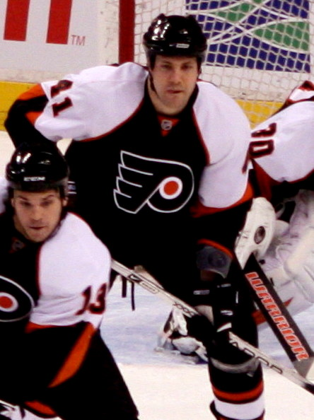 Philadelphia Flyers defenseman Andrew Alberts during a game against the Calgary Flames on March 5, 2009.